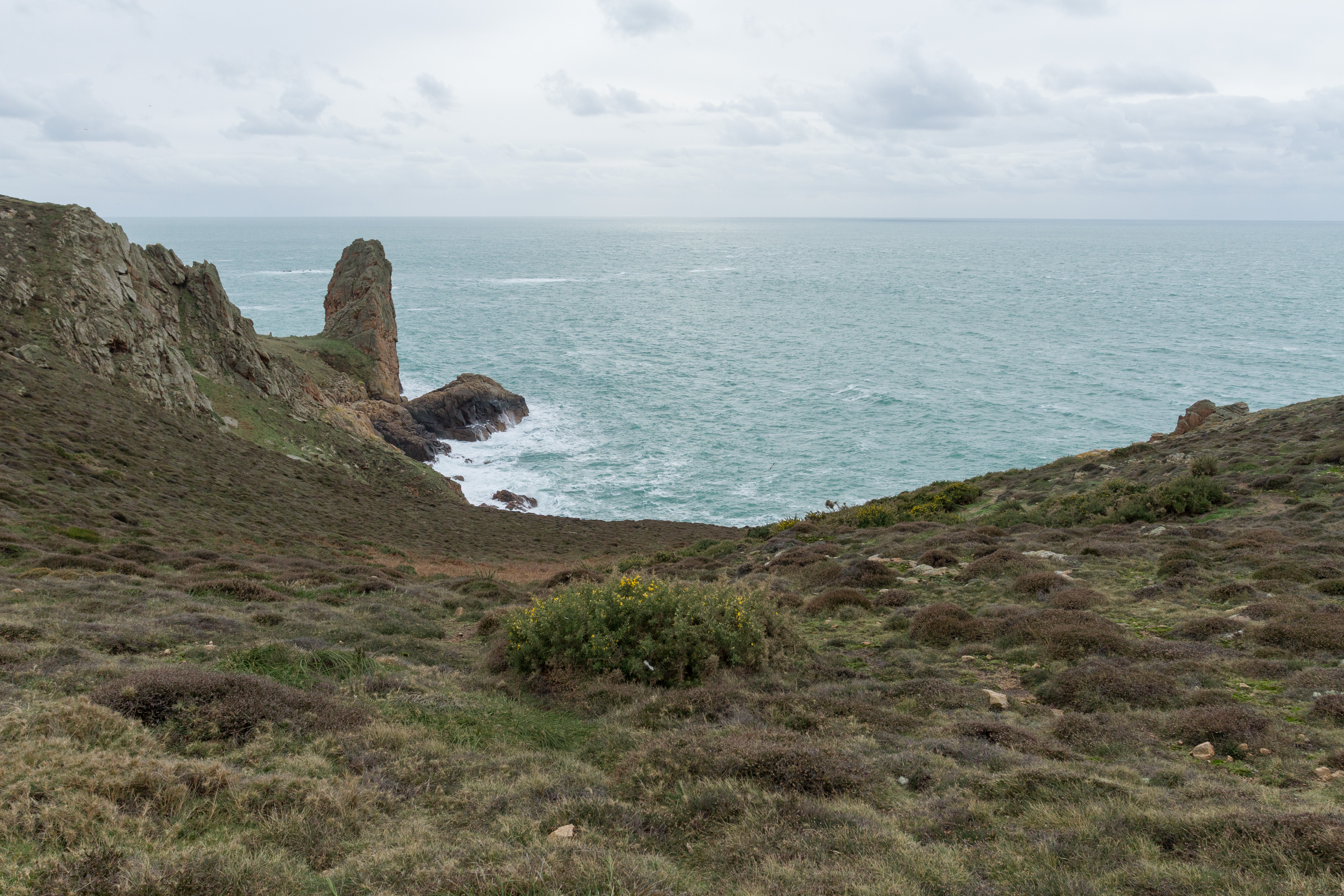 View of Le Pinacle in Jersey.